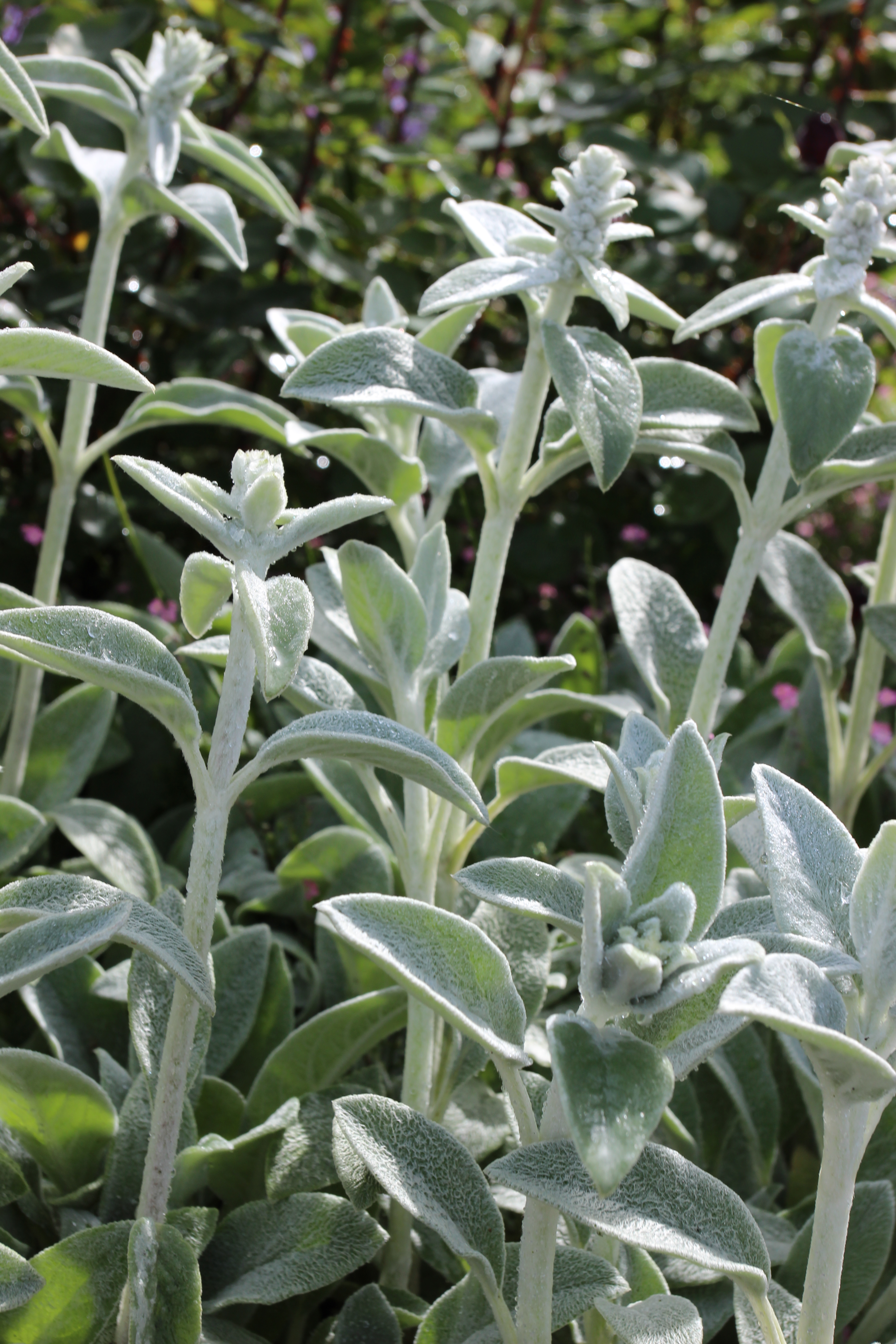 Stachys byzantina